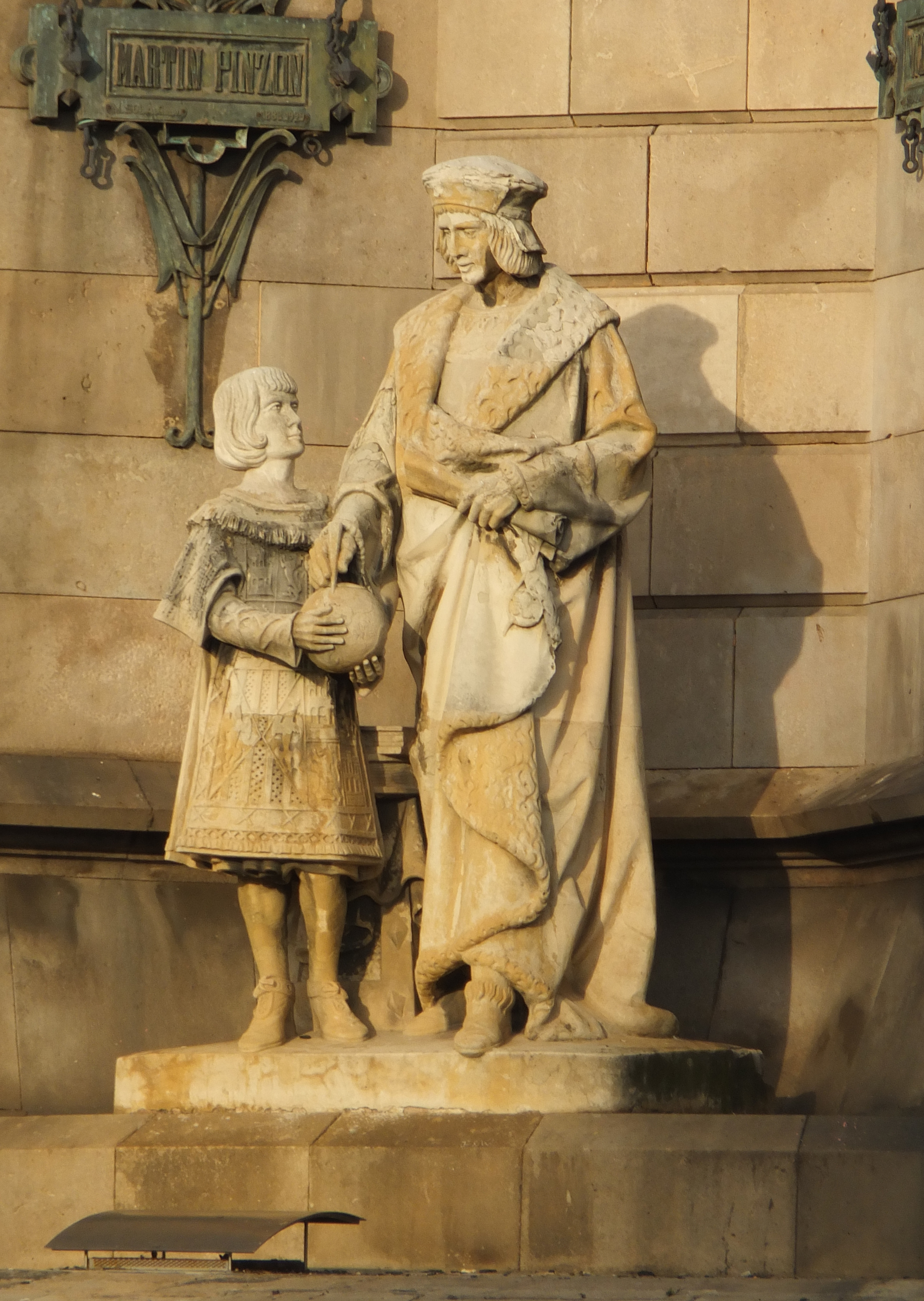 Monument in honour of Christopher Columbus in Barcelona, Catalonia, Spain. Jaume Ferrer de Blanes, a Catalan cartographer by Francesc Pagès.